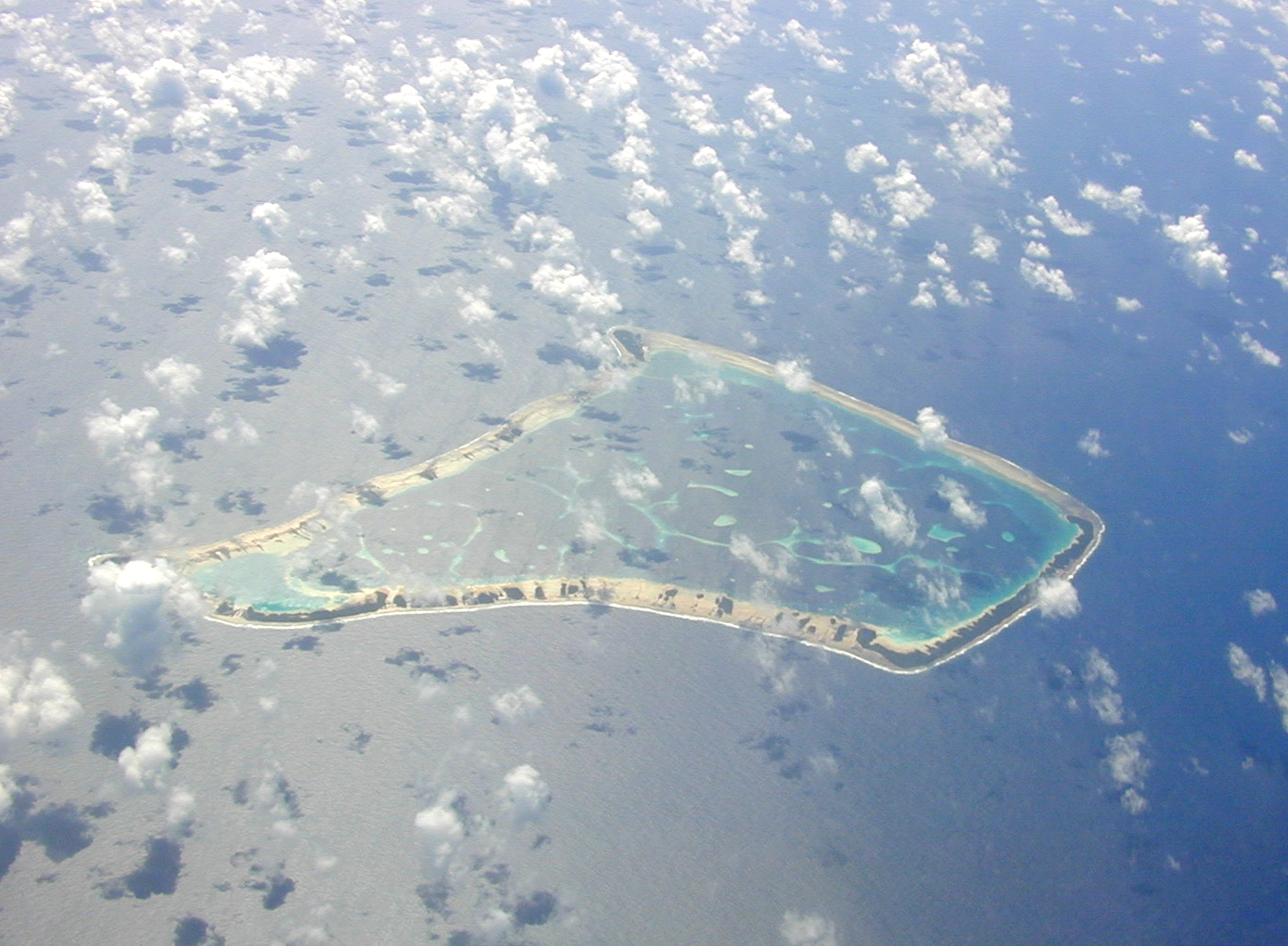 Fakaofo Atoll in the Tokelau Group, photographed from 30,000+ feet on October 19, 2005.